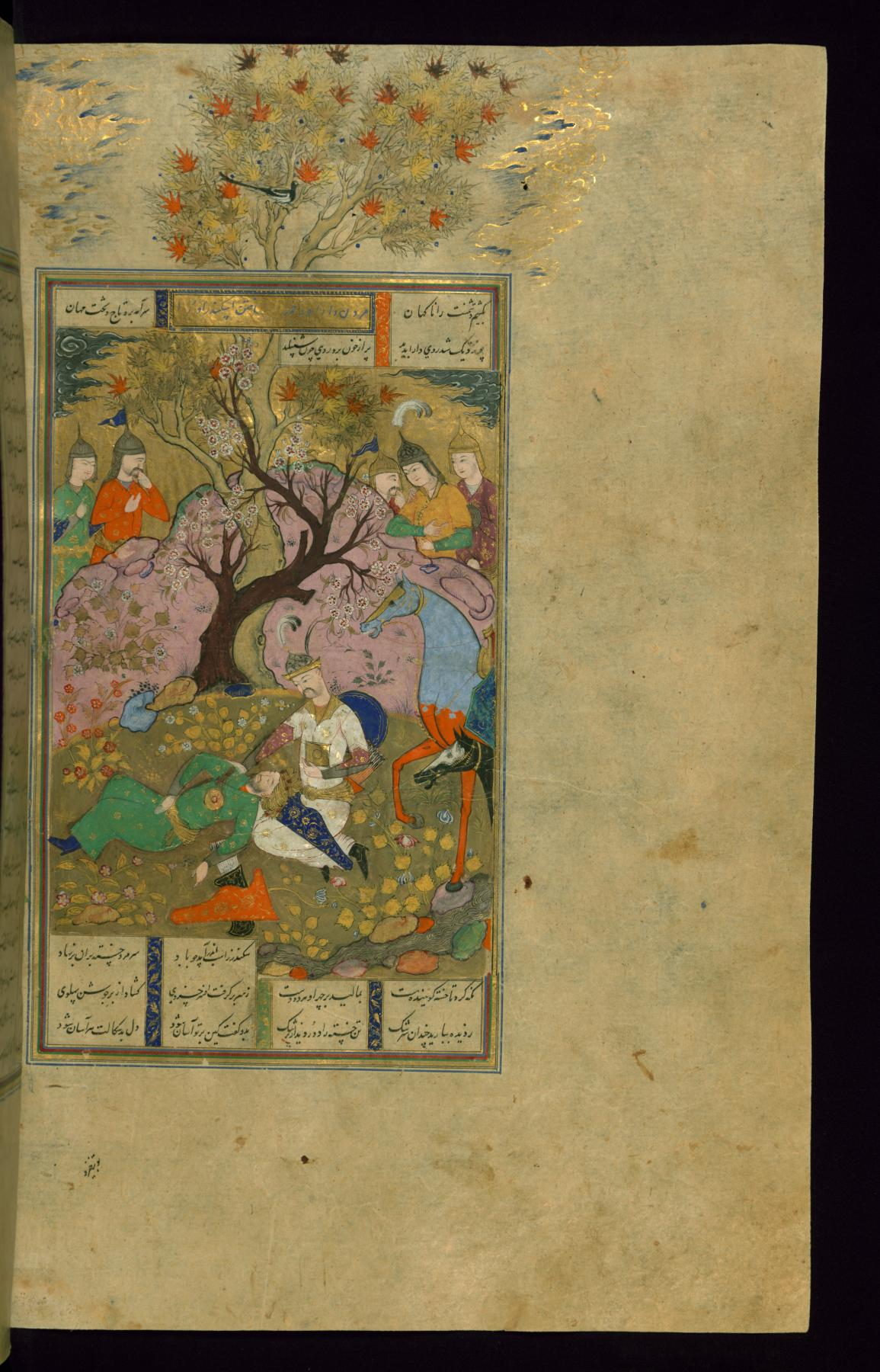 On this folio from Walters manuscrip tW.602, Alexander the Great mourns the dying Darius.